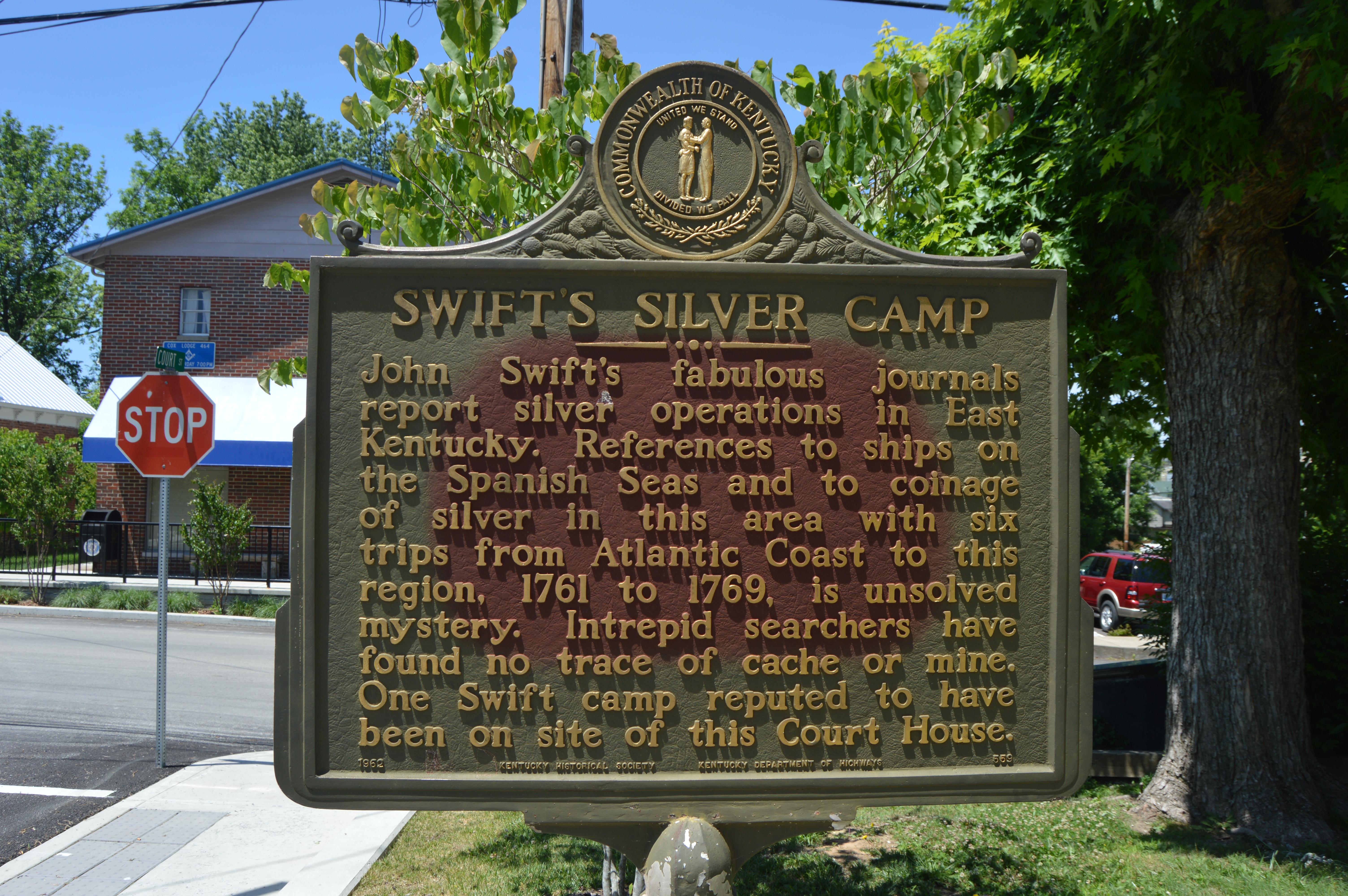 Historical marker in front of the Wolfe County Courthouse on Court Street in central Campton, Kentucky, United States.